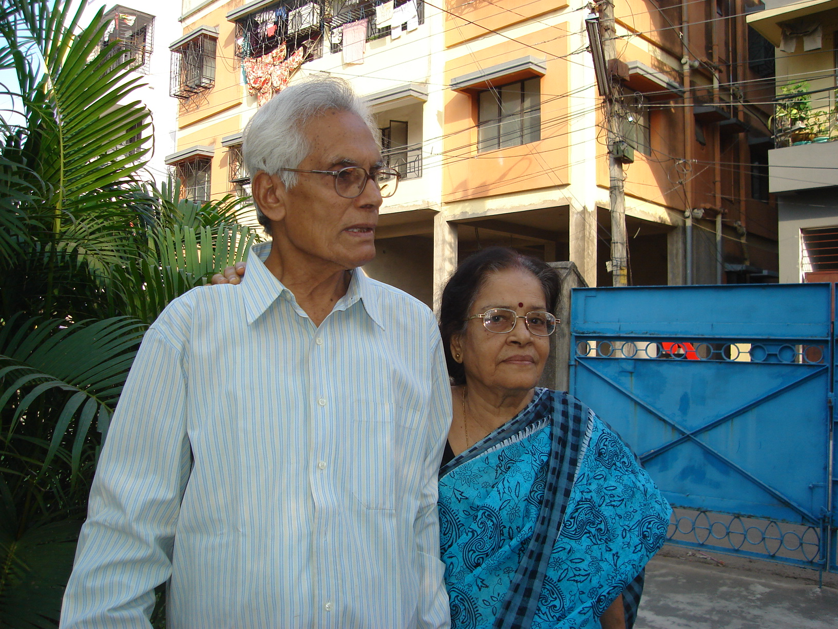 Samir with wife Bela Unknown